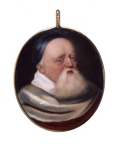 Sir Theodore de Mayerne, attributed to Jean Petitot, enamel on copper, 1 5/8 in. x 1 3/8 in. (41 mm x 35 mm) oval.